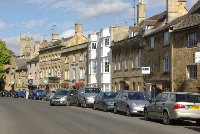 High Street, Chipping Campden